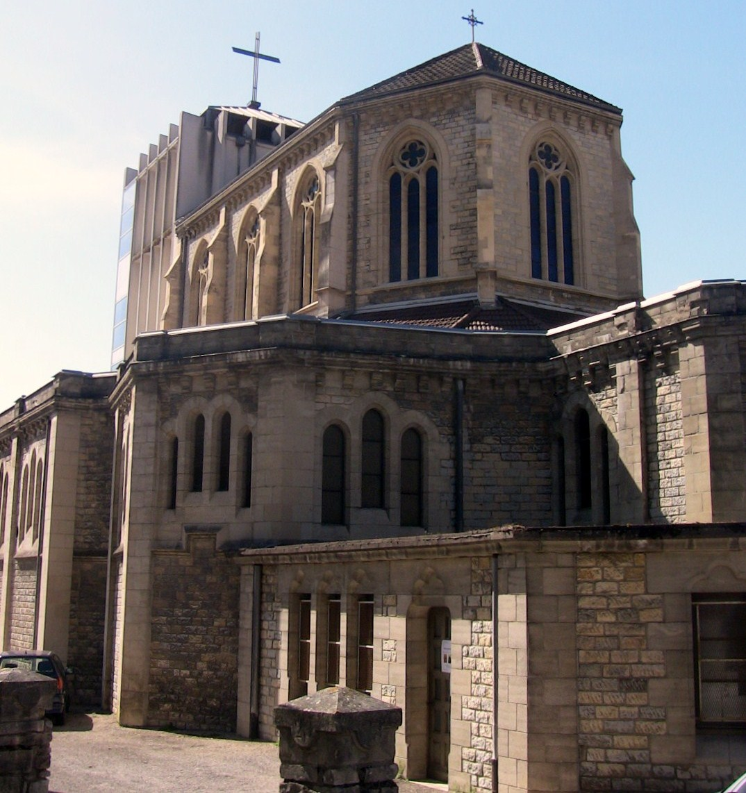 Sainte Jeanne d'Arc Church of Besançon (Doubs, France).